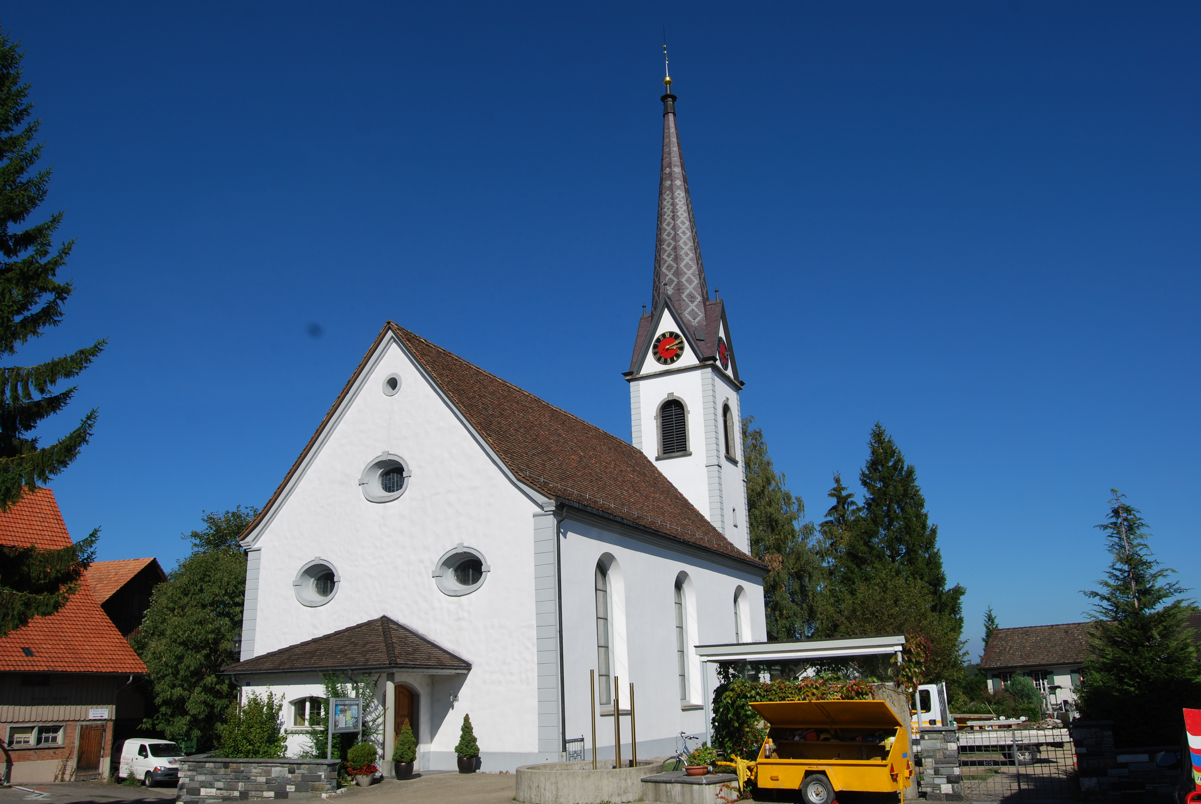 Protestant church at Langrickenbach (KGS n. 11020), canton of Thurgovia, Switzerland